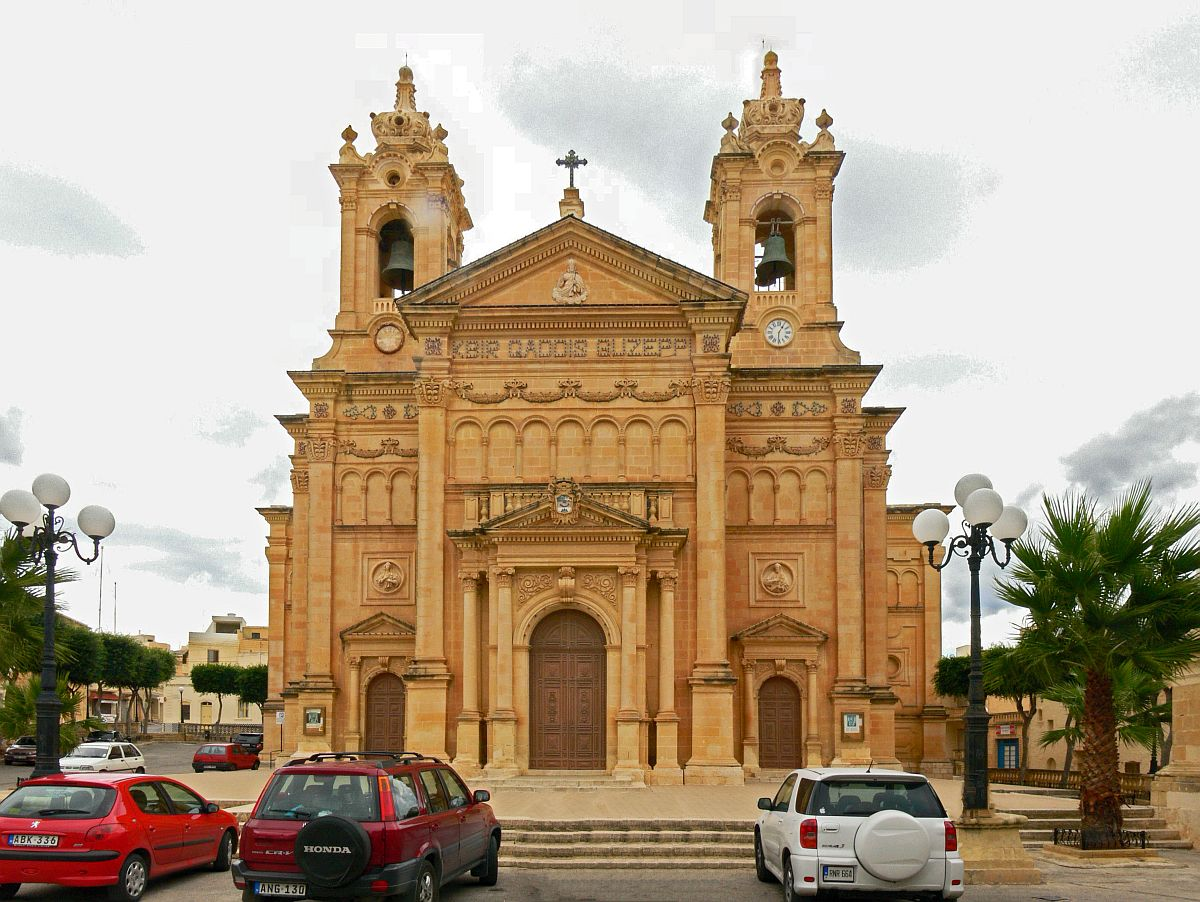 St. Joseph parish church, Qala, Gozo, Malta